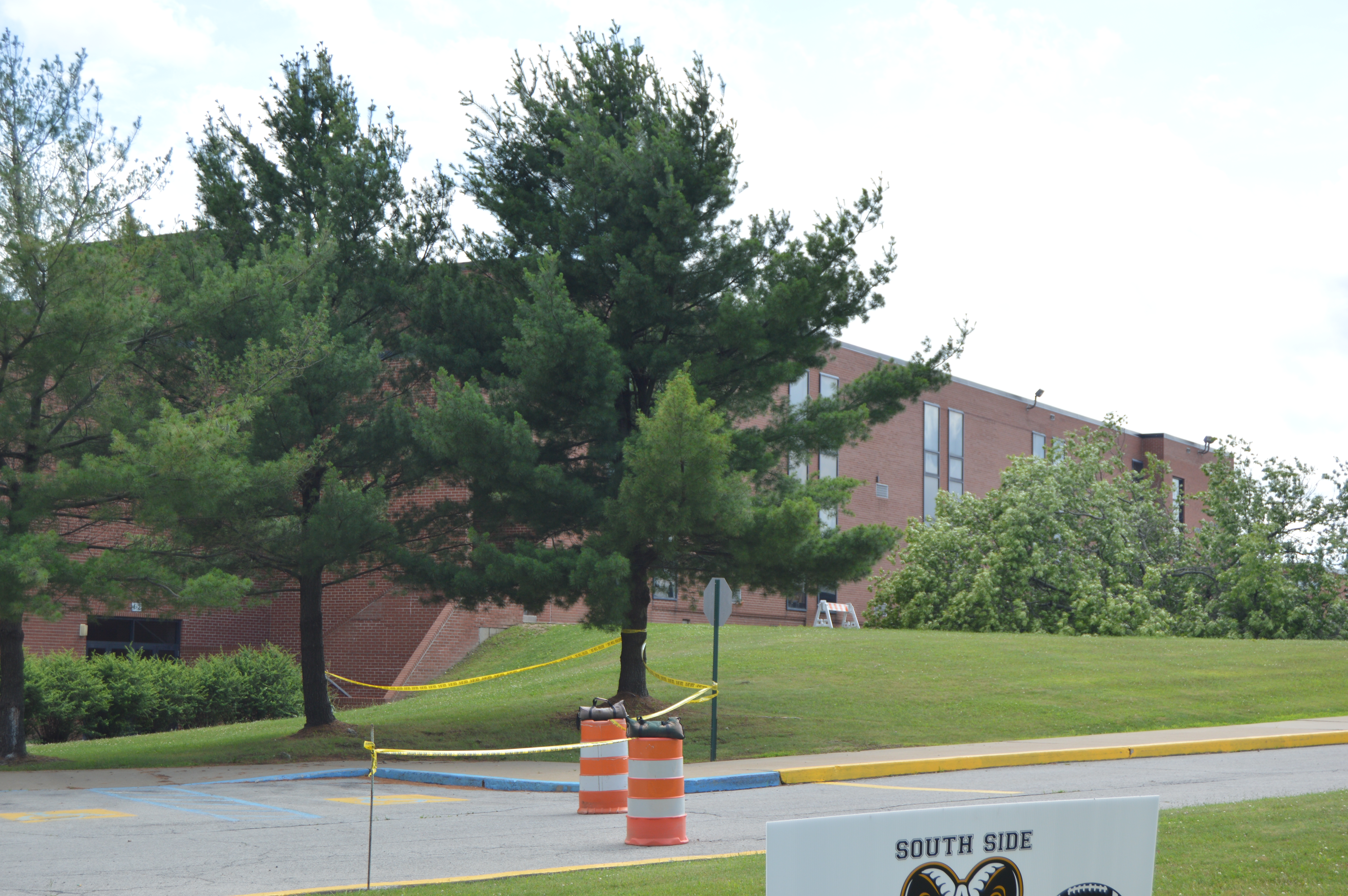 Front, seen from the east, of South Side High School, located at 4949 Pennsylvania Route 151 in southeastern Greene Township, Beaver County, Pennsylvania, United States.